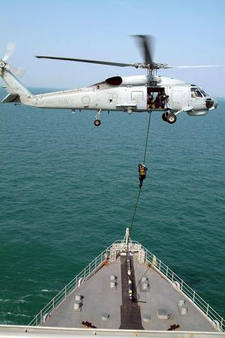 Sourced from: Details: ID: DNSD0608092 Service Depicted: Multi-National 041104N4772B115 Operation / Series: IRAQI FREEDOM A Royal Australian Navy (RAN) Visit, Board, Search, and Seizure (VBSS) Team conducts a fast rope exercise from a hovering RAN S-70B-2 Seahawk helicopter, onto the flight deck of the US Navy (USN) Dock Landing Ship USS HARPERS FERRY (LSD 49). The HARPERS FERRY is part of Expeditionary Strike Group Three (ESG-3) and is currently deployed to the North Arabian Sea in support of Operation IRAQI FREEDOM (OIF). Camera Operator: PH2 BRIAN P. BILLER, USN Date Shot: 4 Nov 2004